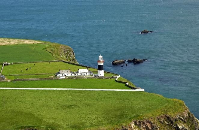 Lighthouse on minehead